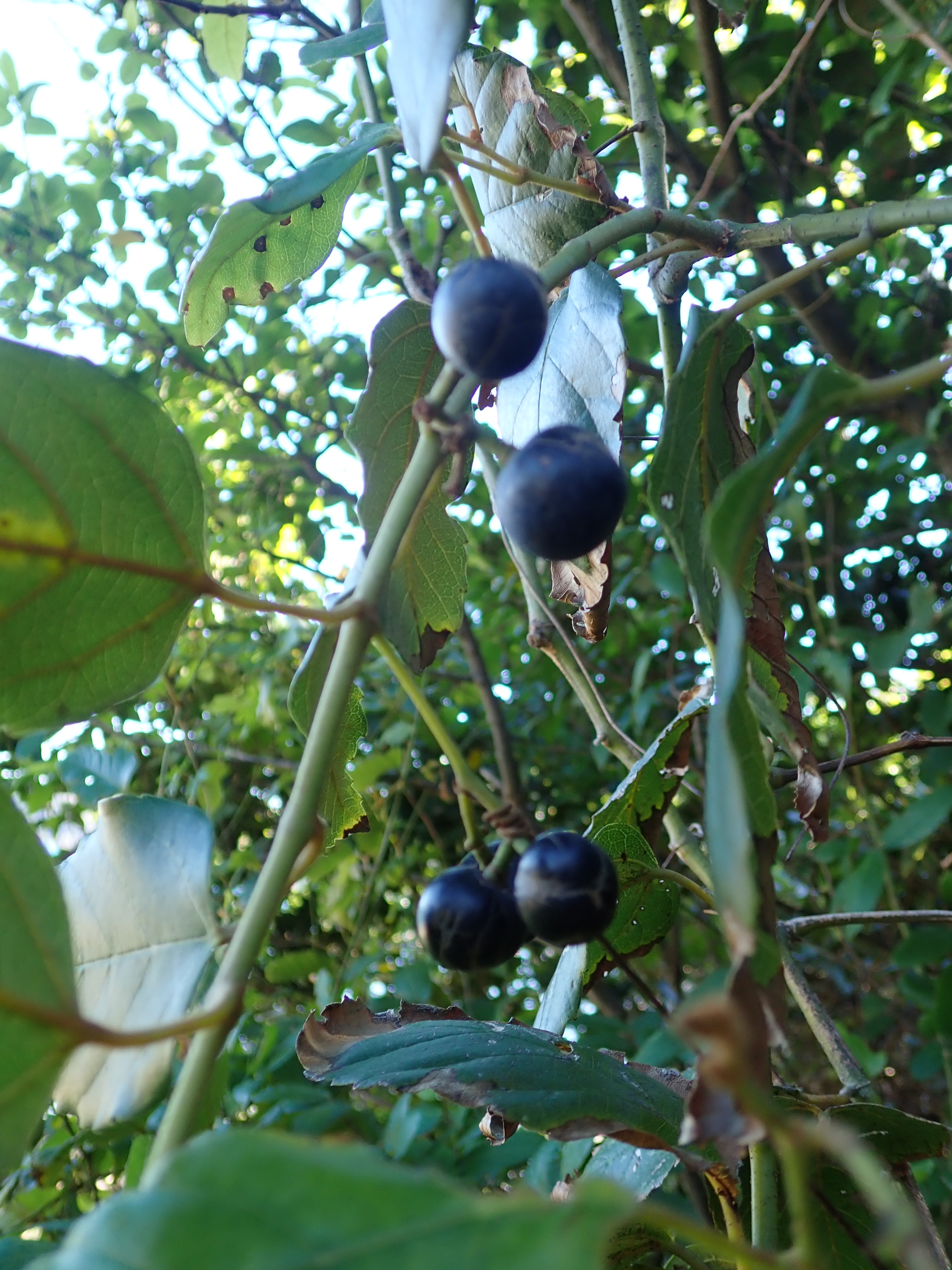 Cissus antarctica, Barrenjoey lighthouse track, New South Wales